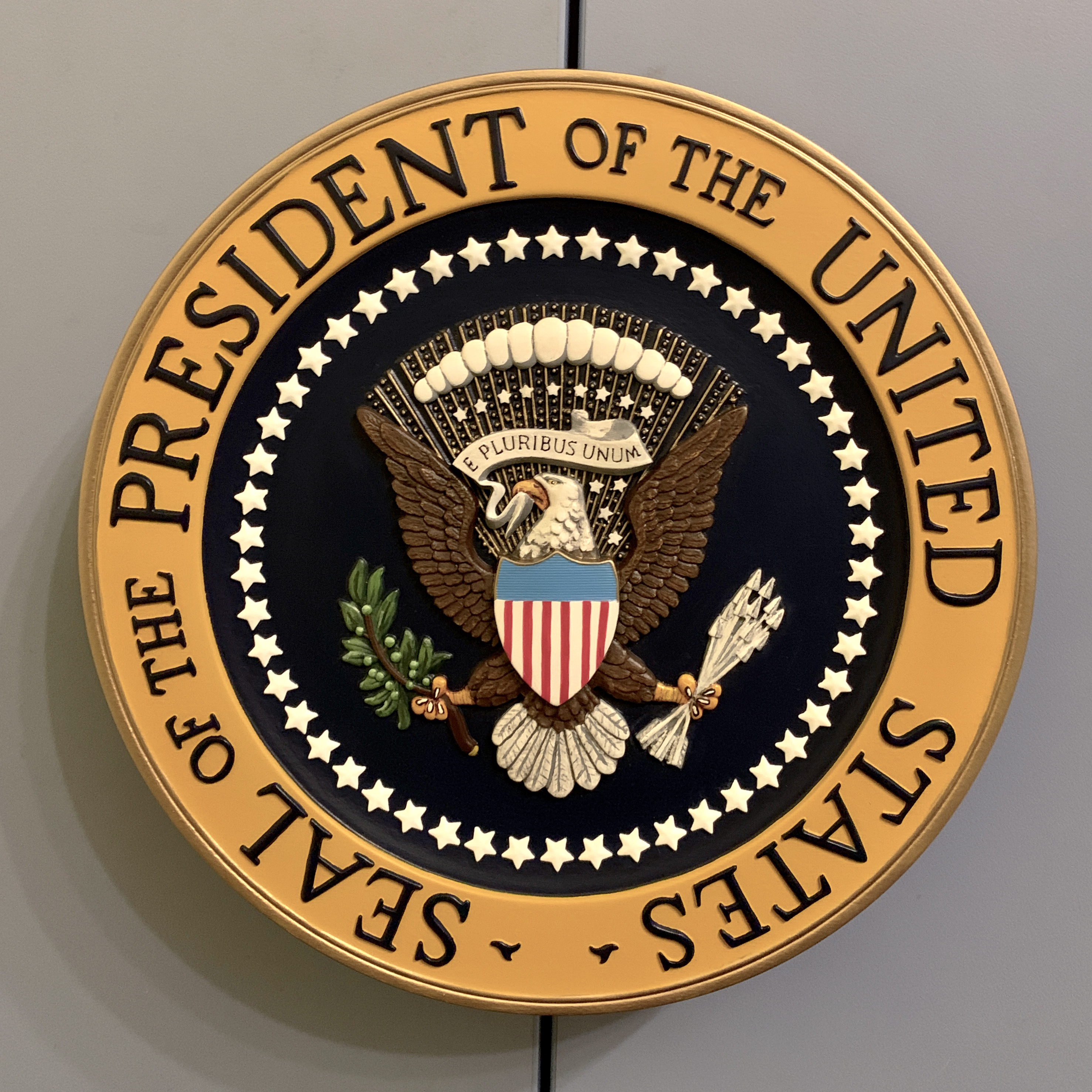 Closeup of the Presidential seal used on the Blue Goose presidential lectern.